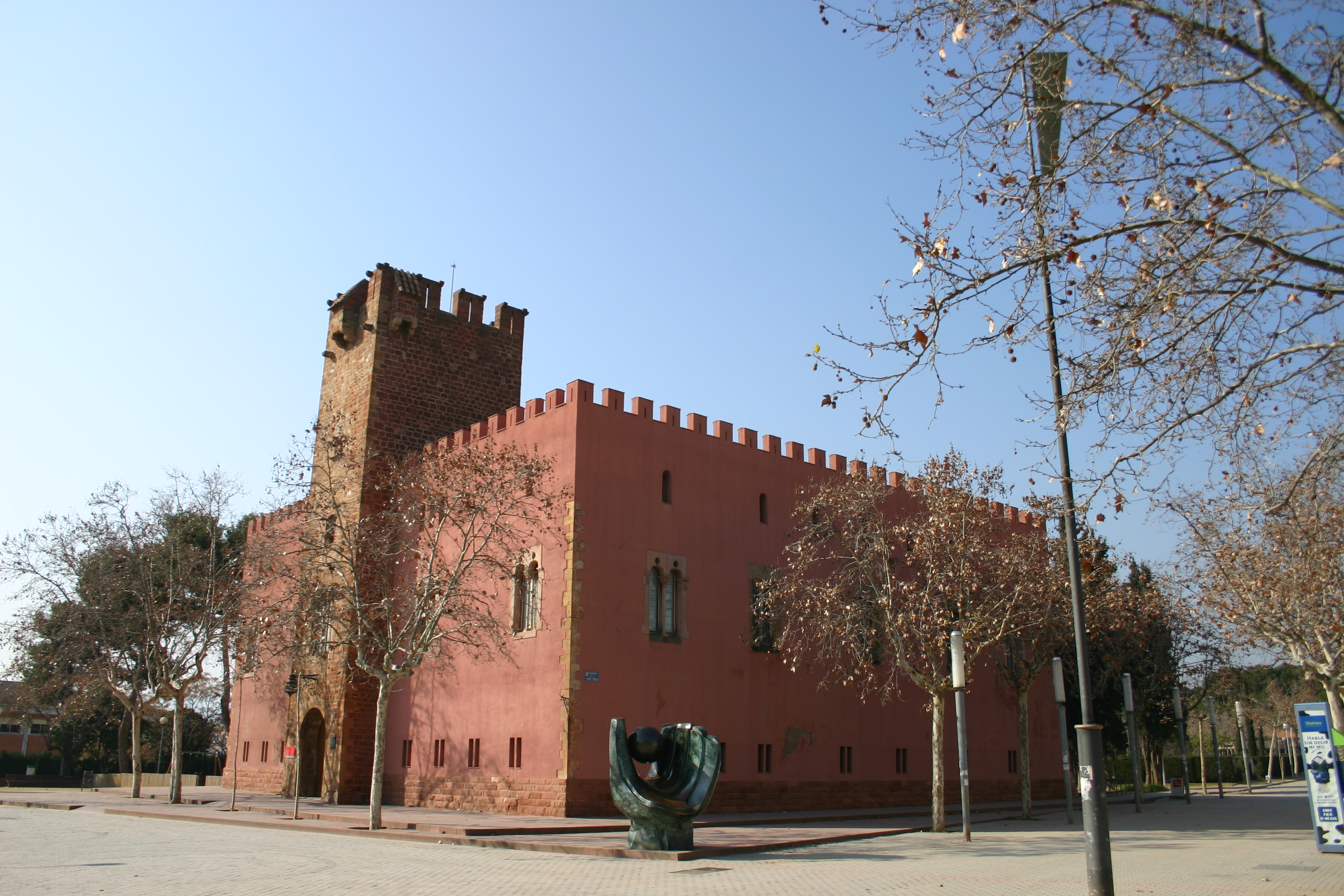 Torre Roja City: Viladecans Comments: By/Por: Yearofthedragon